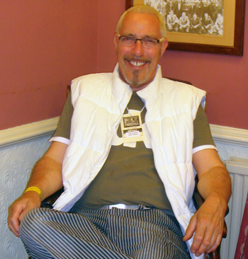 Beverley Festival 2010